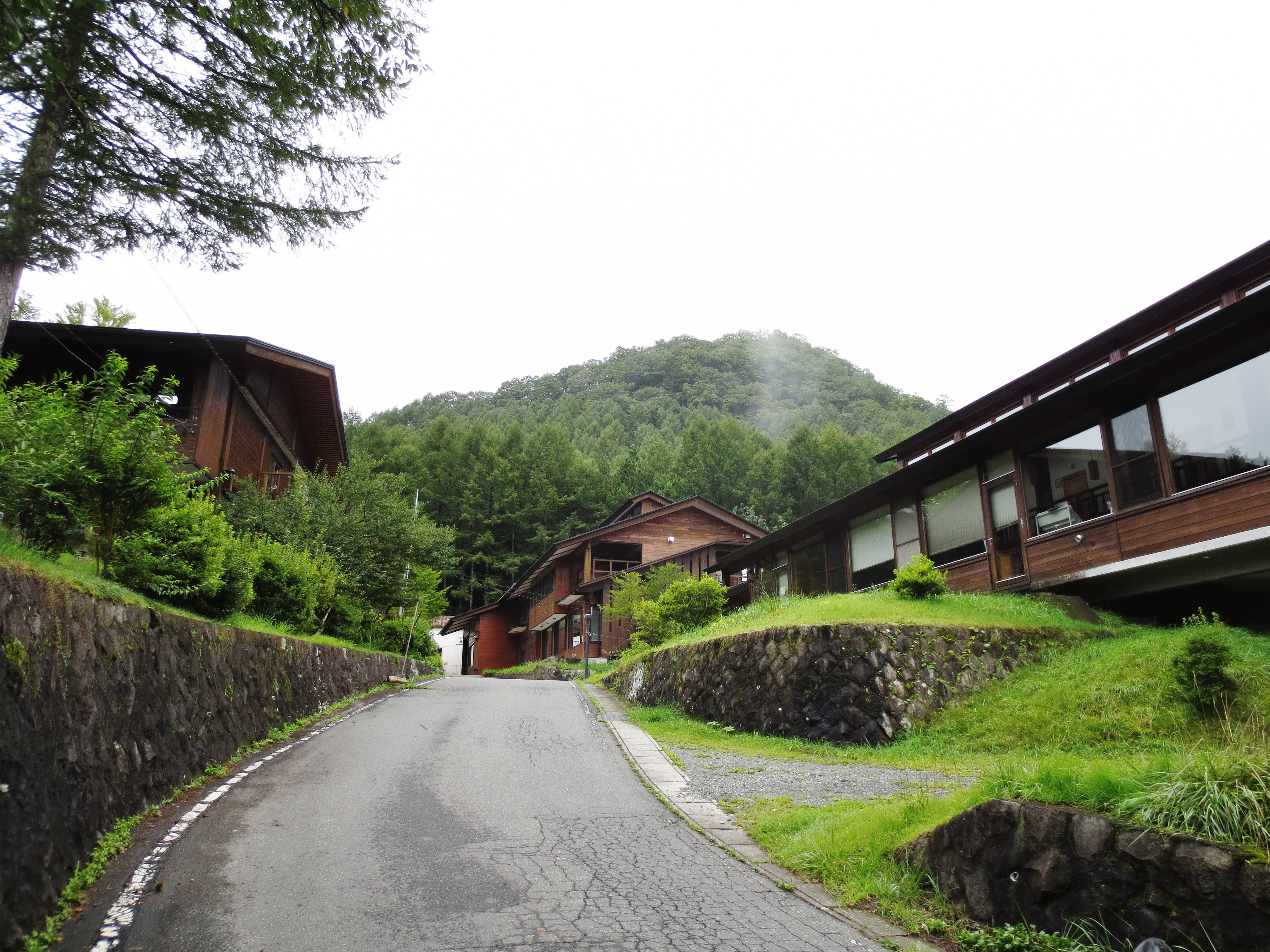 Forestry Mechanization Center.